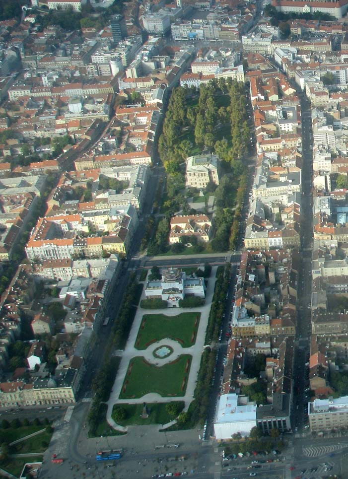 Center of Zagreb